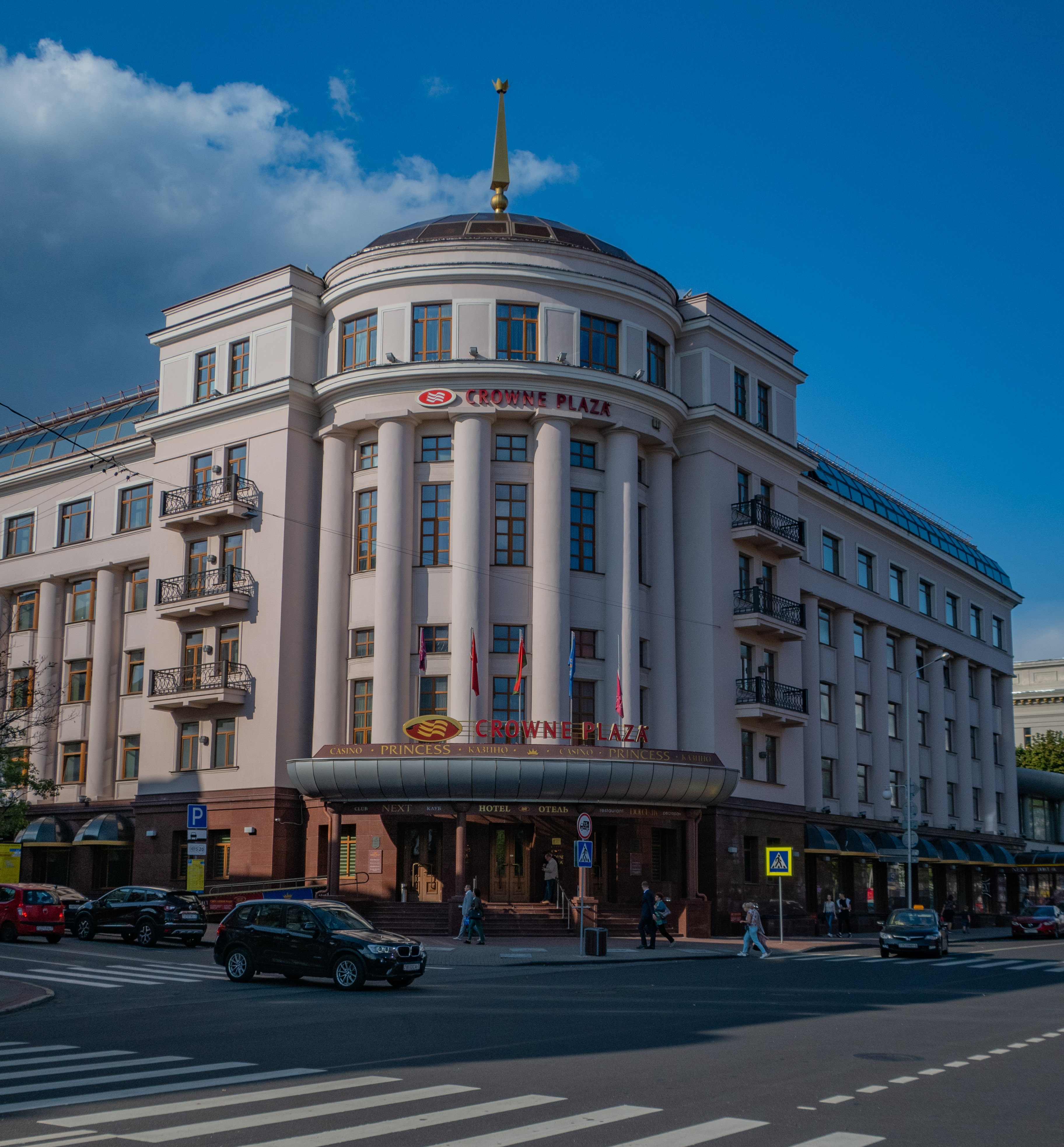 Kirava street. "Crowne Plaza" hotel with "Princess" casino. Minsk, Belarus